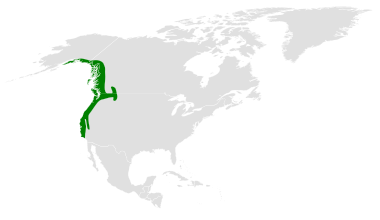 Poecile rufescens distribution map, based on